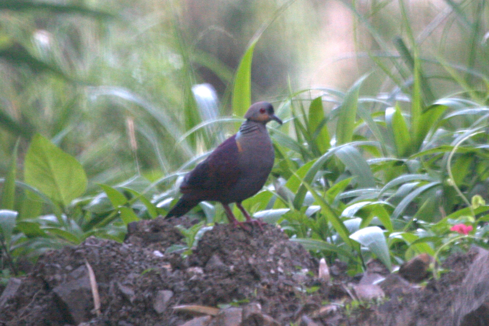 Crested Quail-dove (Geotrygon versicolor) Dysmorodrepanis 12:40, 29 May 2008 (UTC)